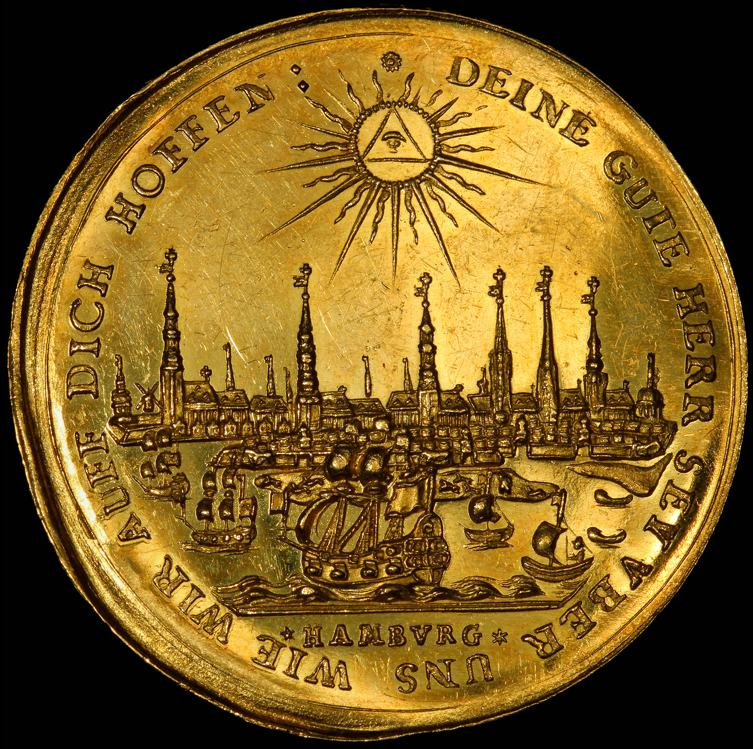 Free imperial city of Hamburg (Holy Roman Empire), half-portugalöser (1679).[1] Equivalent to five ducats. Engraved by Johann Christoph Retke.[2]Text reads as follows: (obverse) DEINE GÜTE HERR SEY VBER UNS WIE WIR AUFF DICH HOFFEN (Lord, may thy kindness be with us just as we have hoped for) and (reverse) GOTT LOB DER UNS SO GÜTIG LIEBT • DEM KRIEGE WEHRT UND FRIDEN GIBT (God loves our praise so graciously that he gives unto war first resistance then peace).verbatim